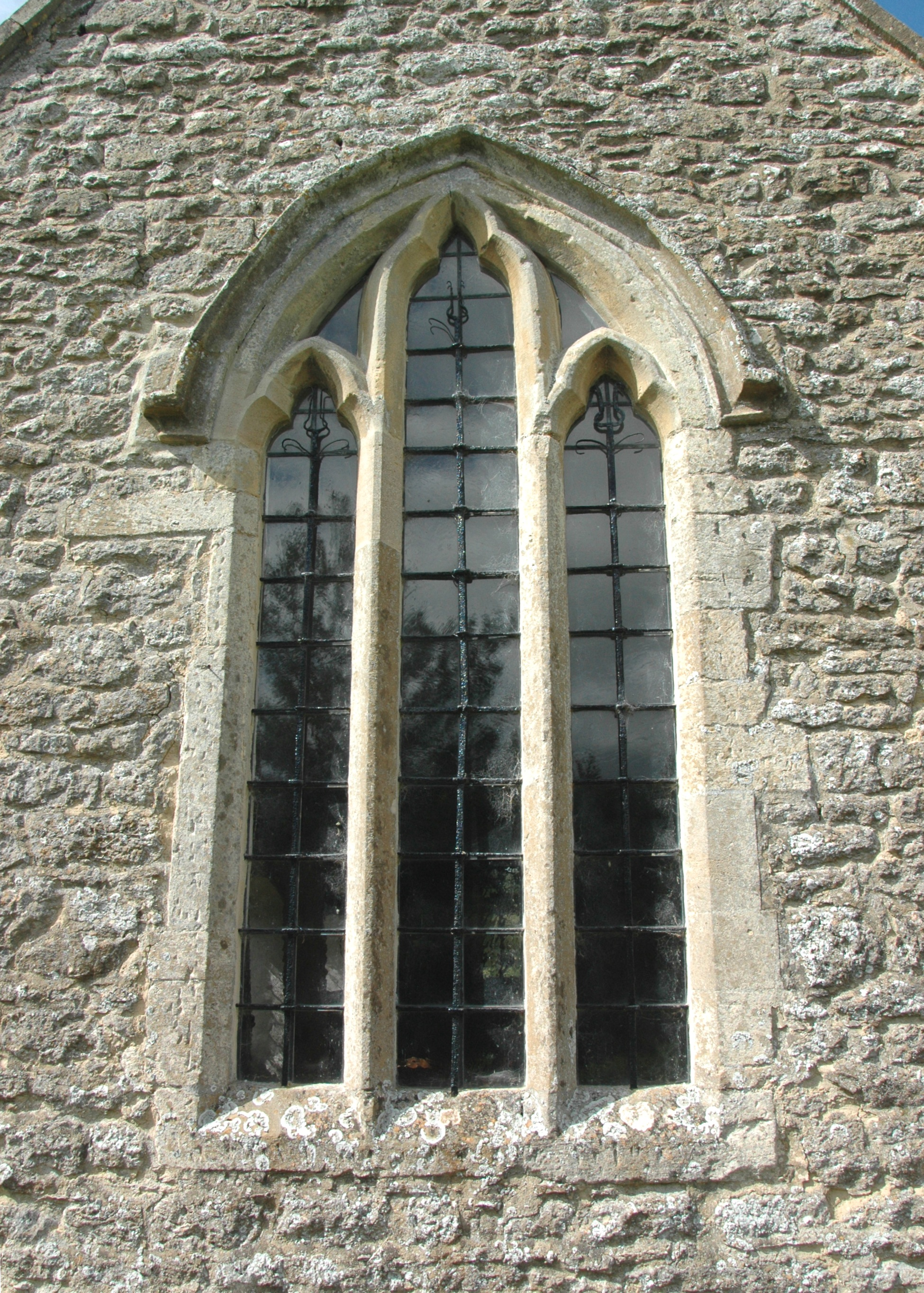 Church of England parish church of St Lawrence, Besselsleigh, Oxfordshire (formerly Berkshire): 13th century east window of the chancel